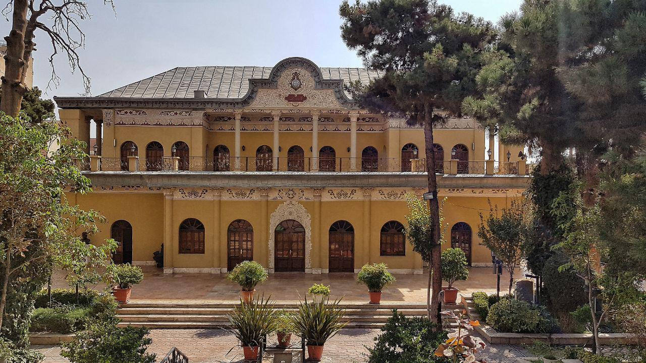 Einoldoleh Garden and Building